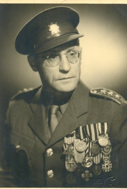 Ladislav Bedřich in year 1947 (from family archive)